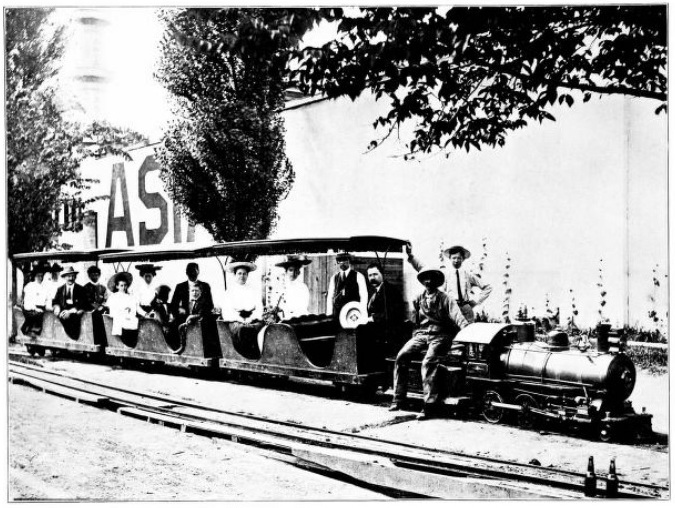 Transportation at the Fair - Minature Railroad - Topics Louisiana Purchase Exposition (1904, Saint Louis, Mo.)